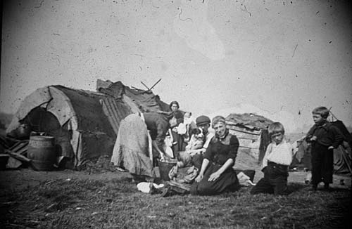 Titled '1890-1920 (c) Travellers lived on the Black Patch off Foundry Lane'. This image is a public domain resource more than a 100 years old held by the Local Studies & History Department of Birmingham Central Library from LSH/Slides Collection Set 0062 Slide 0041 (19/2067) available for non-commercial, private study and educational use. More detailed images appear in (ref) Ted Rudge 2003Sibadd 07:52, 10 July 2006 (UTC)